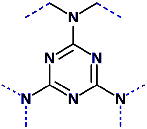 Possible structural formula of a melamine resin (MF).